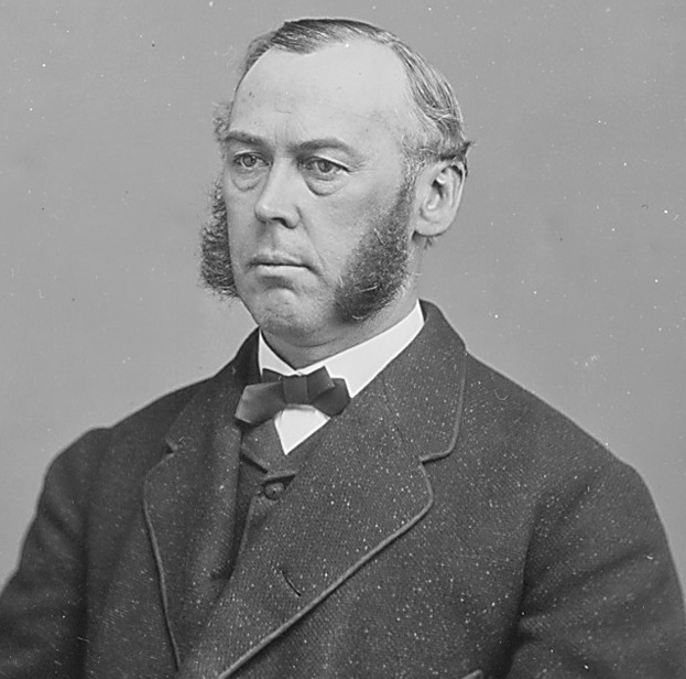 Roswell Hart, Congressman from New York